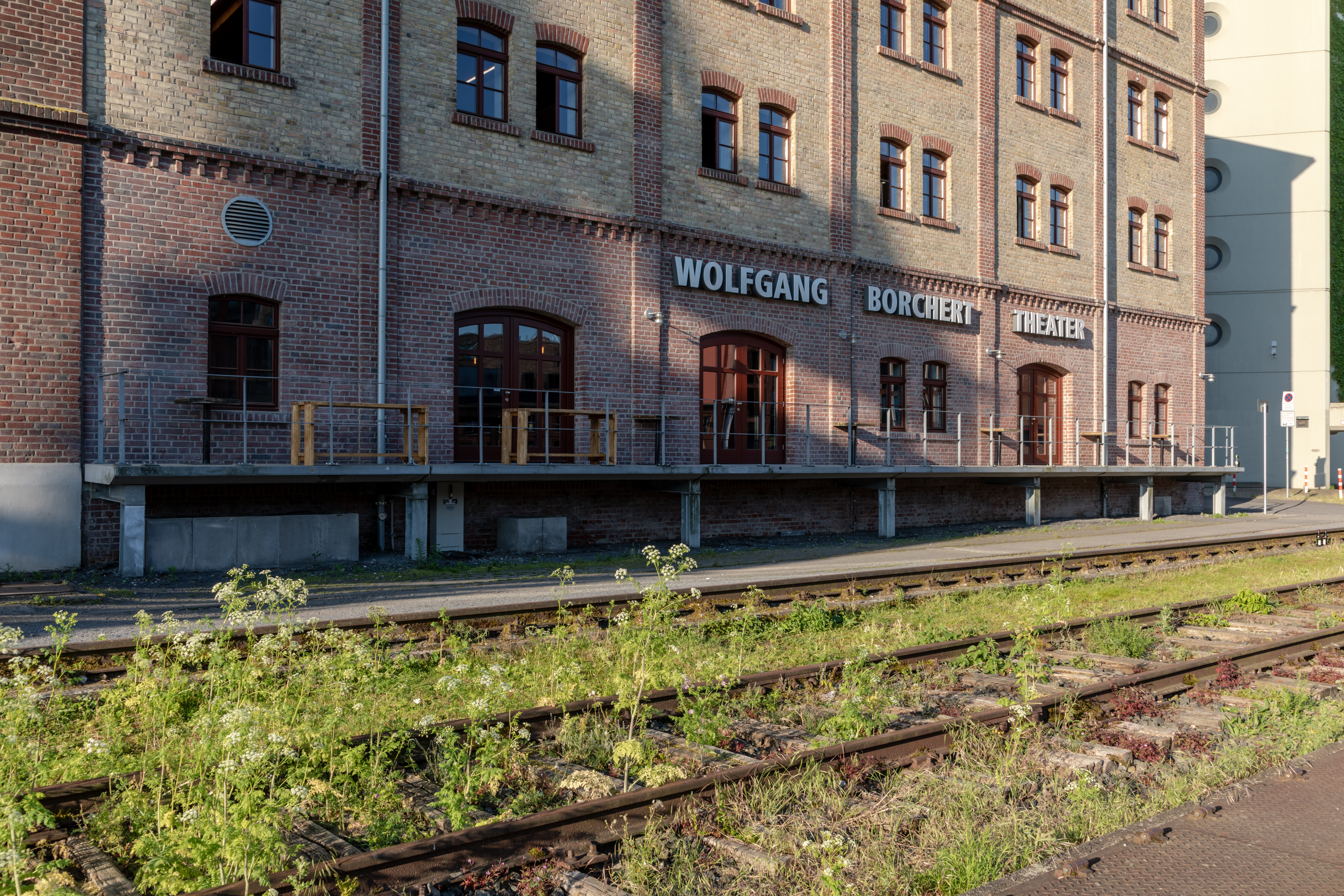 Wolfgang Borchert Theater (with the shadow of the harbour crane) in the port of Münster, North Rhine-Westphalia, Germany This image shows a heritage building in Germany, located in the North Rhine-Westphalian city Münster.